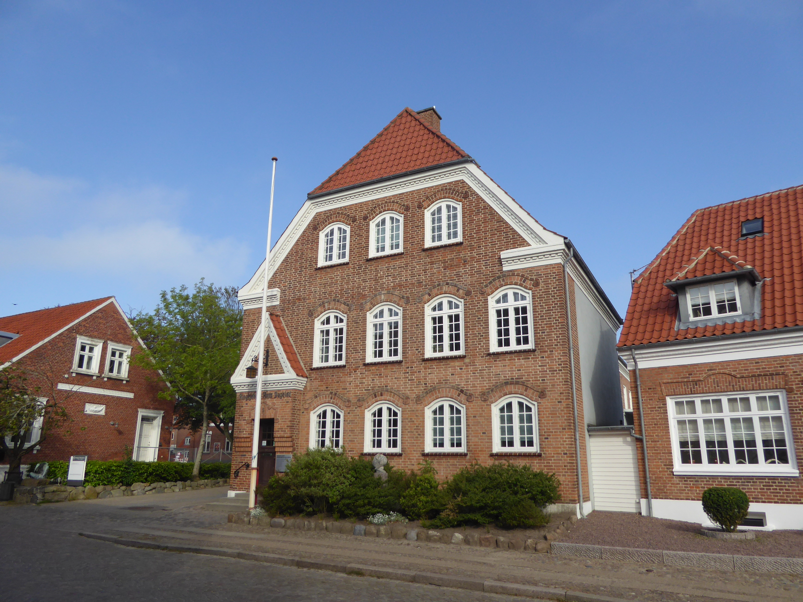 Office building of the newspaper Dagbladet Ringkøbing-Skjern at St Blichers Vej in Ringkøbing in Denmark.